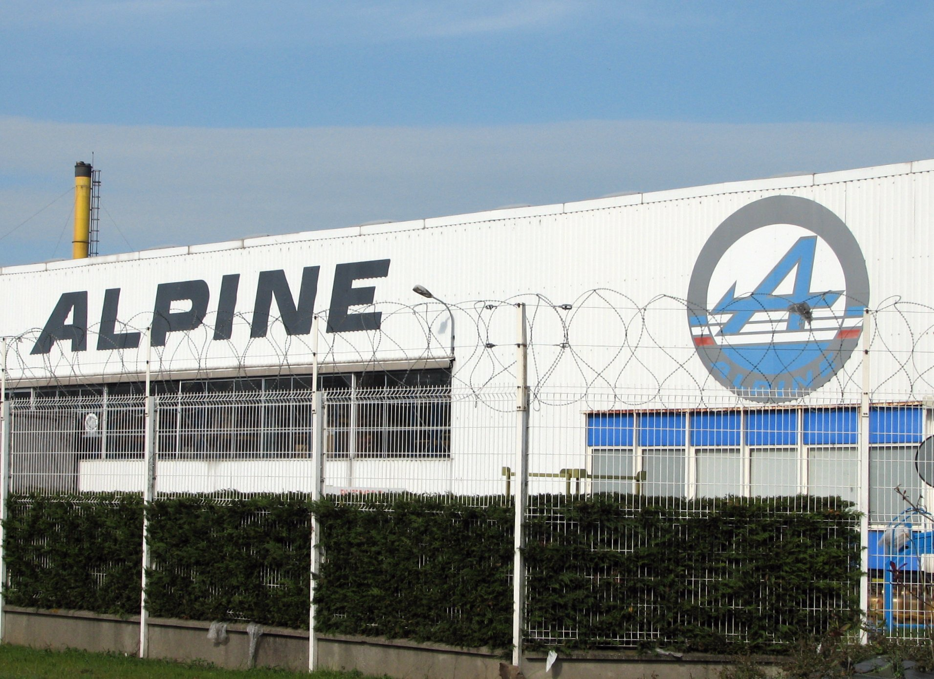 Dieppe is the home of Alpine. The Renault Clio RS is built there.